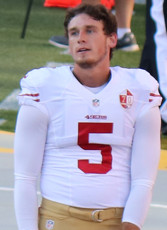 Bradley Pinion, a player on the National Football League.